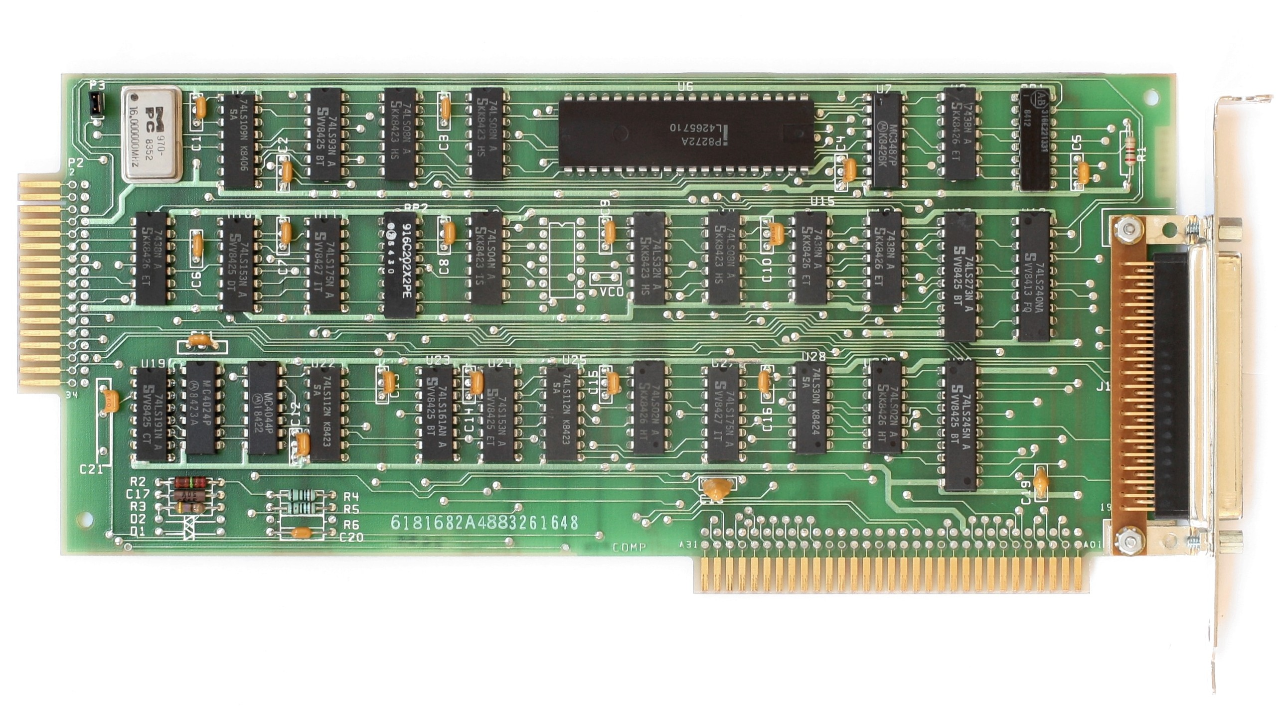 IBM FDD Controller for internal and external floppy disk drives (IBM PC/XT).